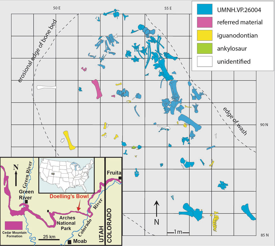 Excavation map showing the specimens of Mierasaurus bobyoungi gen. nov, sp. nov. and geographical setting of the Doelling’s Bowl site. Recovered specimens include: numerous disarticulated cranial elements, many axial elements, an articulated hind leg and a partial articulated forelimb (holotype: UMNH.VP.26004, and referred material of a juvenile sauropod: UMNH.VP.26010 and UMNH.VP.26011). The articulated manus and pes extended through the sediment at an angle below the level of the majority of the skeleton, indicating that an individual sauropod became mired in soft sediment and died in place. This map was drafted by J.I.K. and D.D.D. (© Utah Geological Survey) in Adobe Illustrator CS5 (